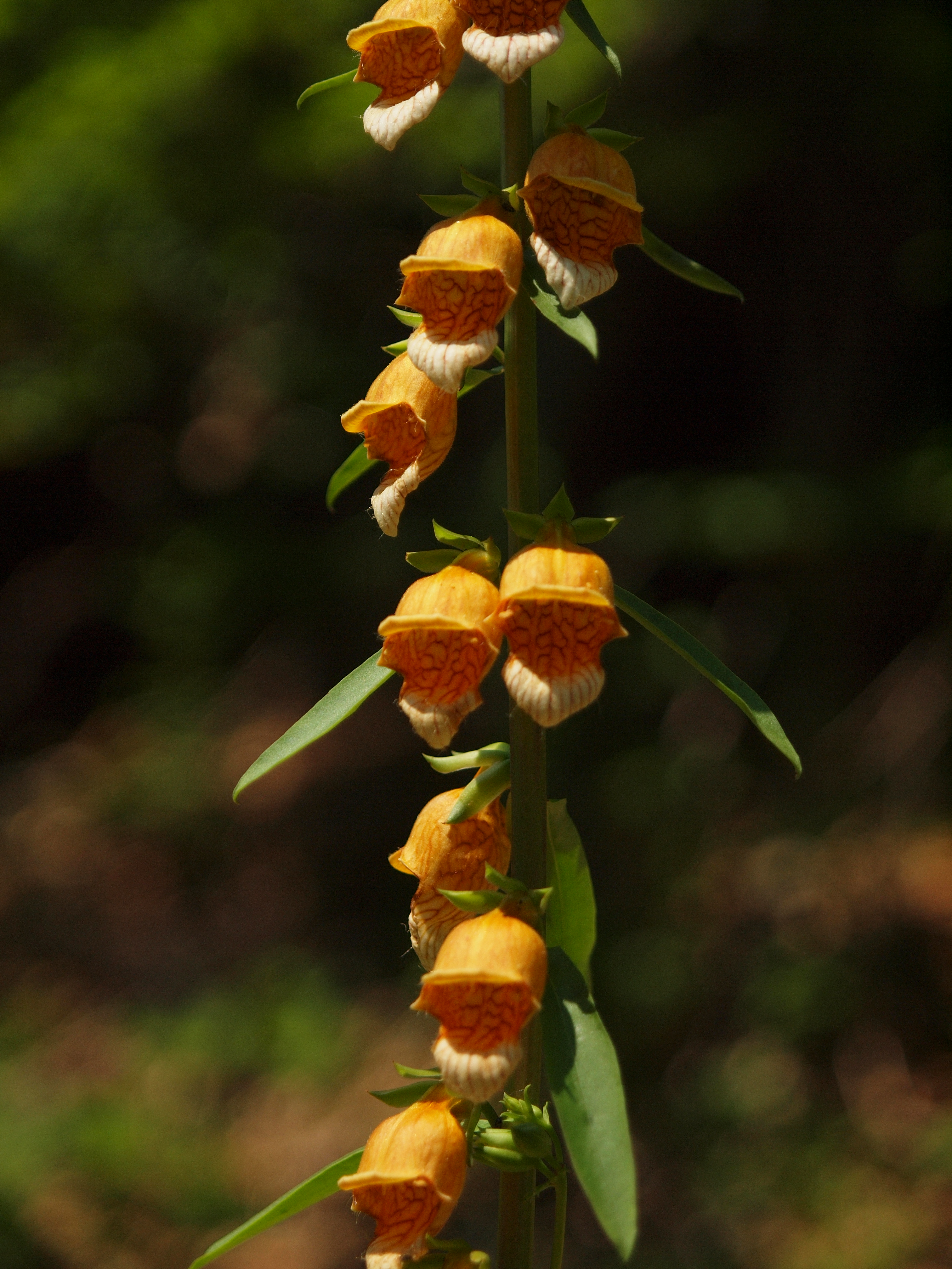 Digitalis laevigata Mt Orjen 2015